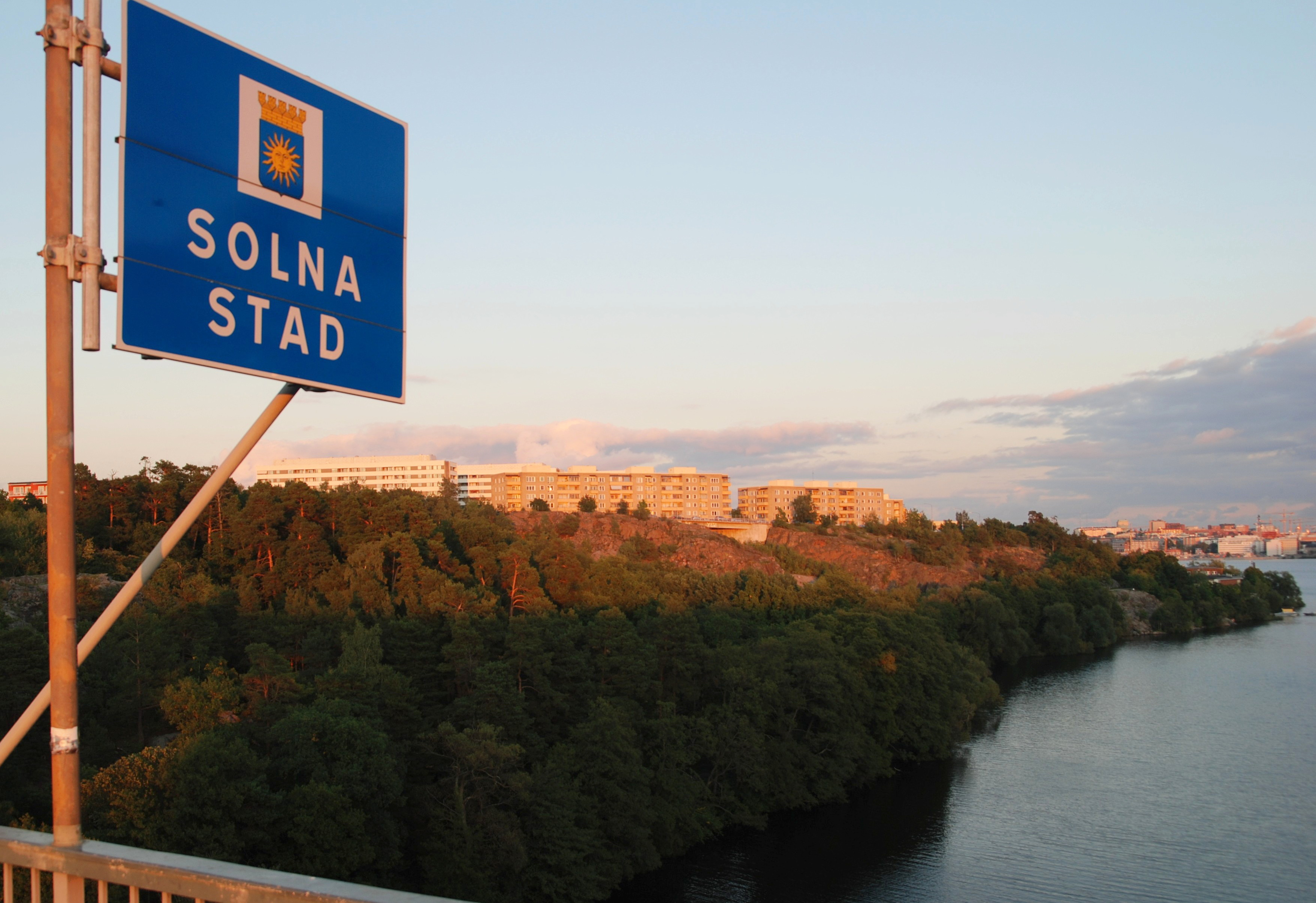 Town Sign of Solna/Sweden, Huvudstaleden/Norrbyvägen